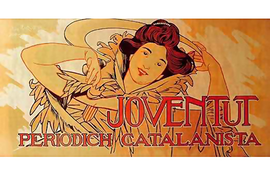 Capçalera de Riquer